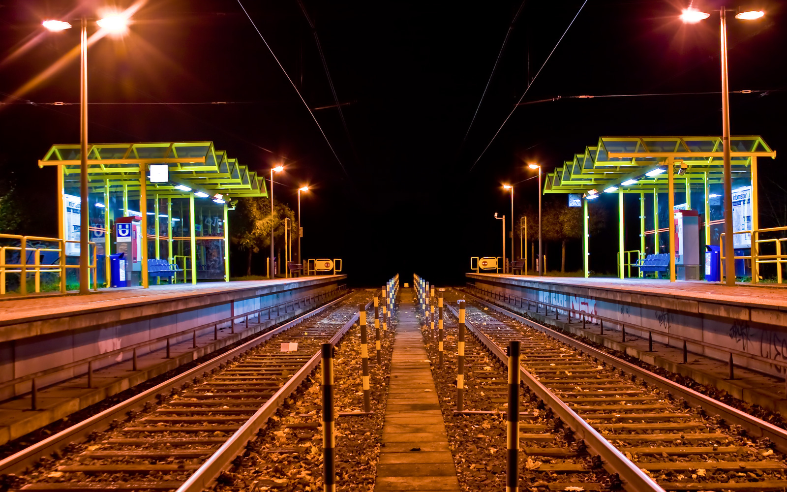 The tram stop "Mühlenkamp" at night